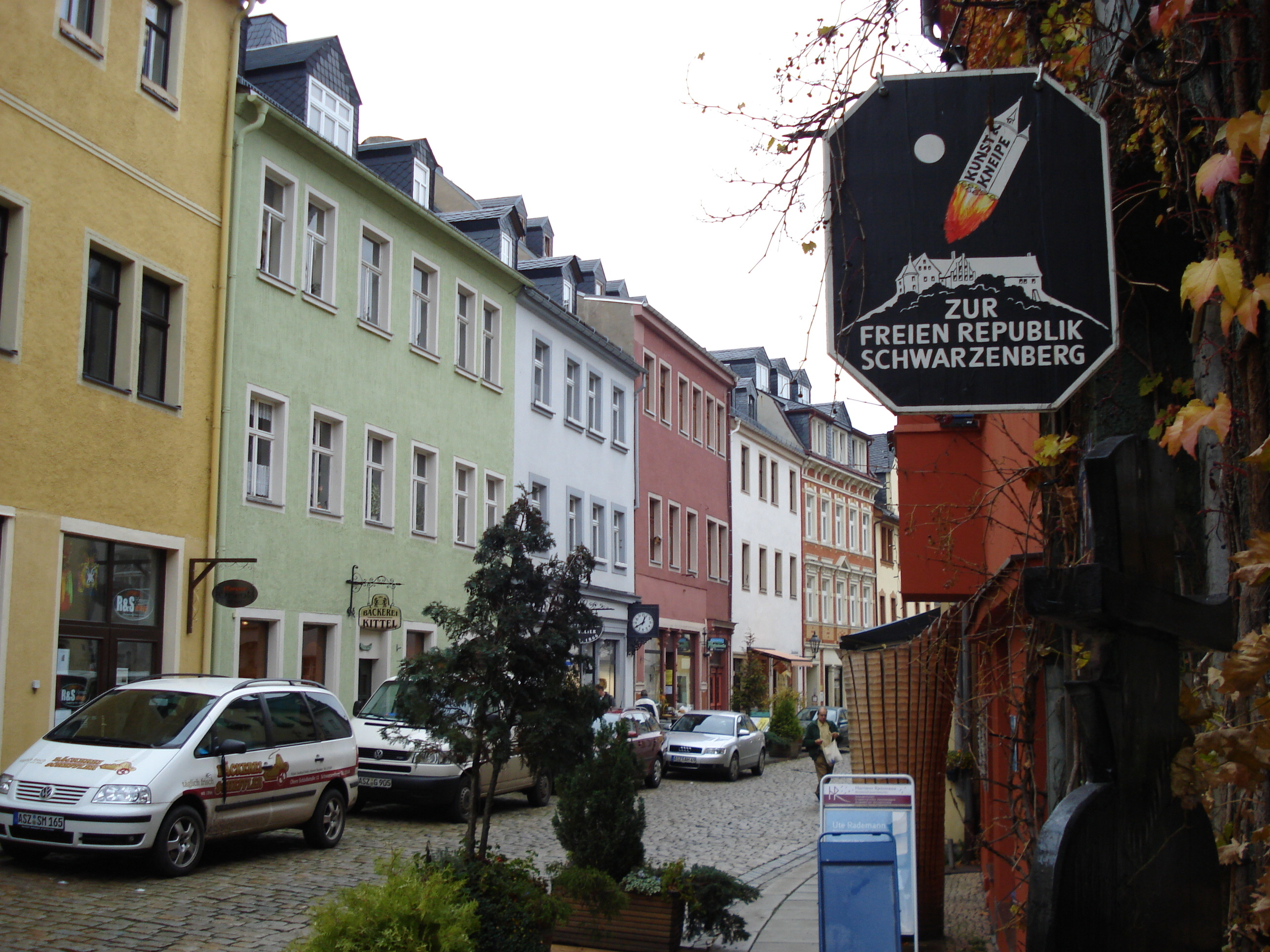 Schwarzenberg, Saxony